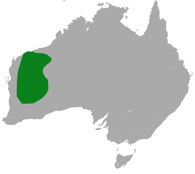 Woolley's False Antechinus (Pseudantechinus woolleyae) range